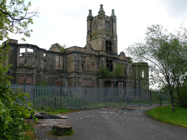 Woodilee Asylum Now just a shell, the central building and clock tower along with a few ancillary buildings are all that remain of this previously impressive structure. Opened in 1875 as the Barony Parochial Asylum at Woodilee it was the largest asylum in Scotland, with 400 inmates. It closed its doors finally in 2001, after cracks appeared in the main block and the patients were evacuated on 'Black Friday (13th March 1987). There are plans to begin developing the site and incorporating parts of the original buildings in 2008-9.